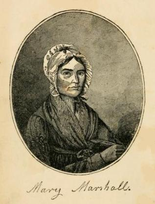 Frontispiece to Dyer's second full-length book